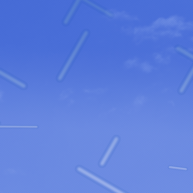 Floaters caused by Vitreous syneresis